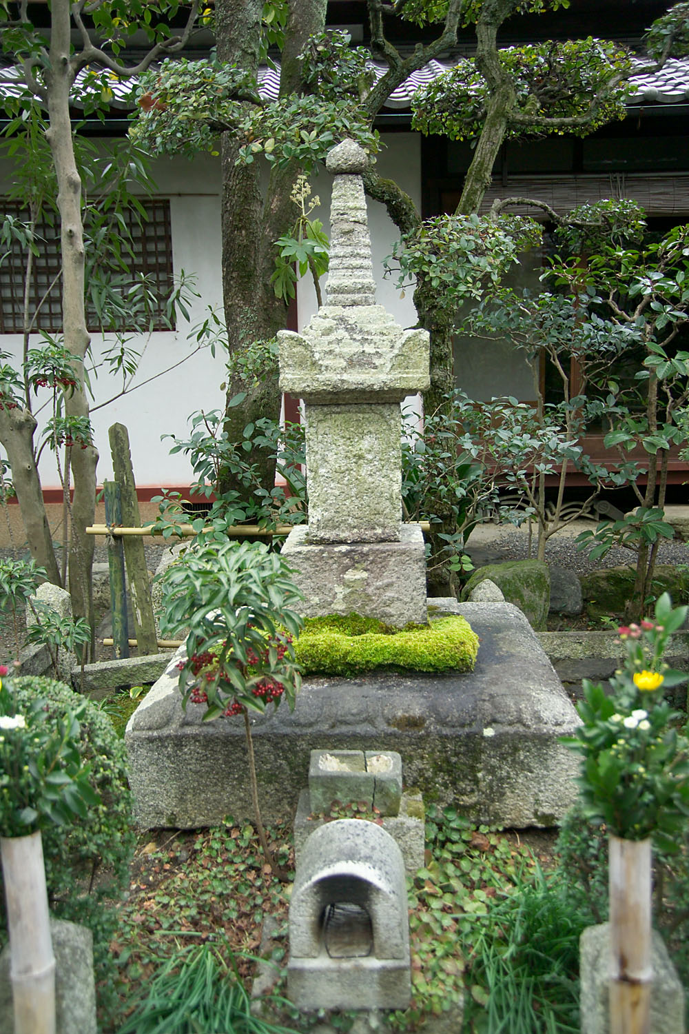 This stone marks the grave of Minamoto no Yoshinaka (Kiso Yoshinaka) at Gichu-ji, Otsu, Shiga Prefecture, Japan. I took the photo and contribute my rights in the file to the public domain; individuals and organizations retain rights to images in the file.